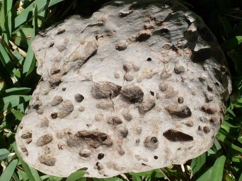 pumice rock from the rainforest floor at Gumbaynggir, previously known as League Scrub, Nambucca Valley, NSW, Australia